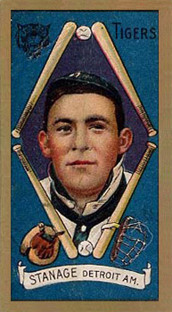 Baseball card of Major League Baseball player Oscar Stanage